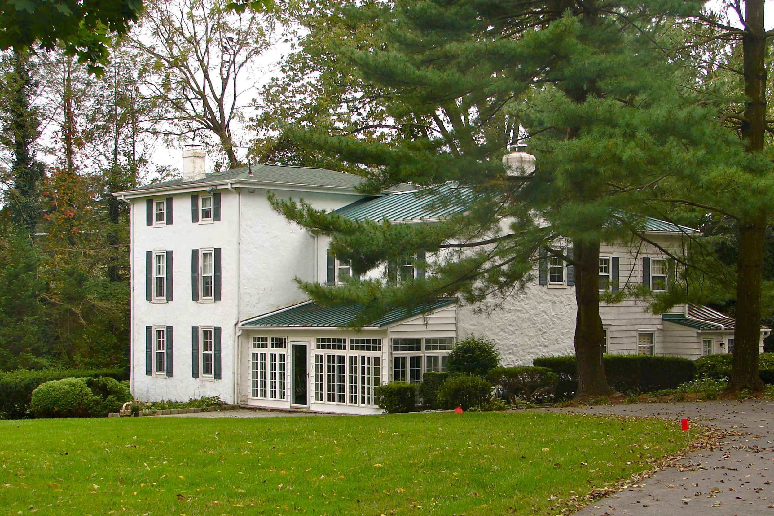 James Armor House At 4905 Lancaster Pike, Christiana Hundred, near Wilmington, Delaware. On the NRHP since August 31, 1992.